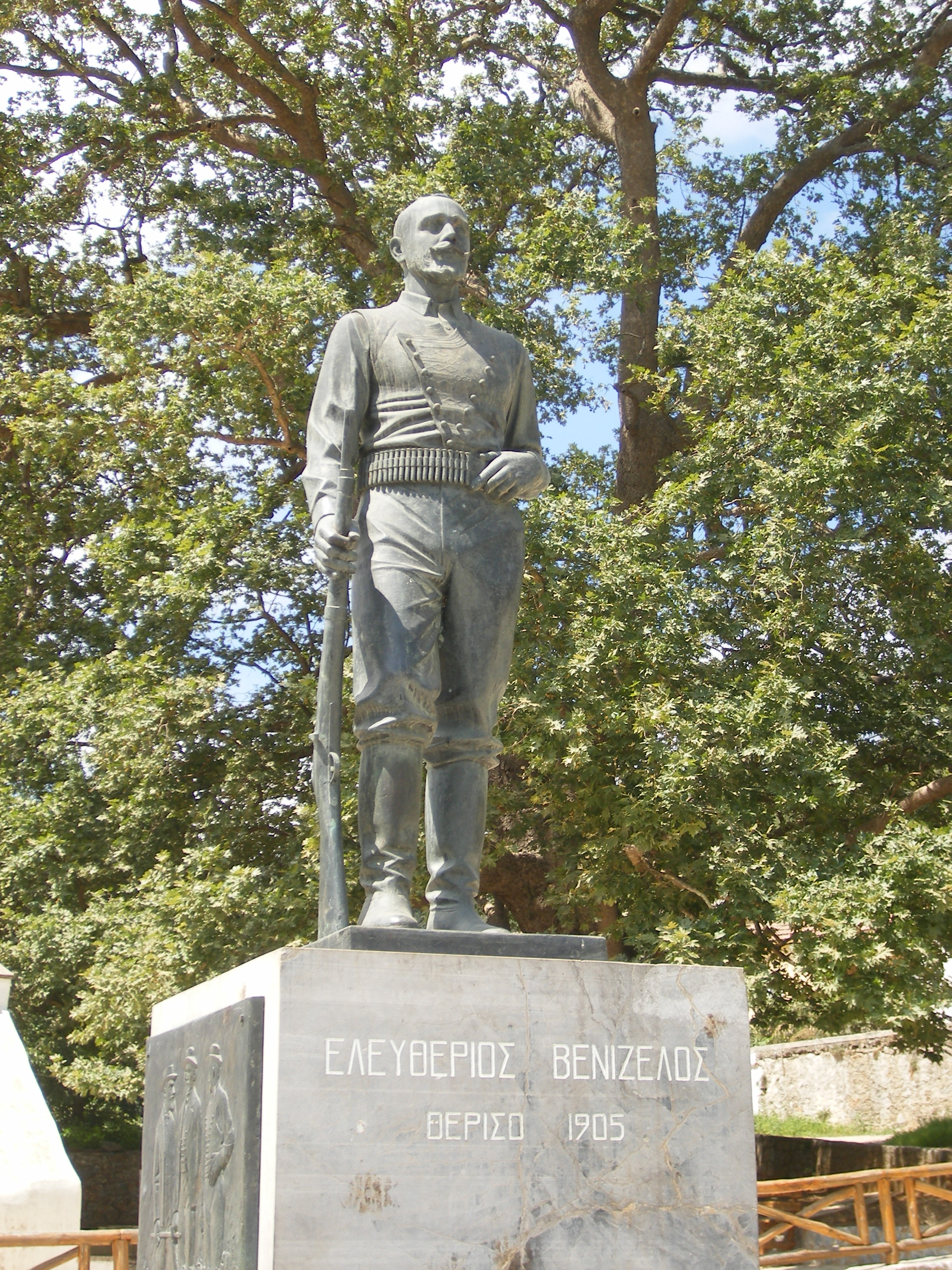 Statue of Eleftherios Venizelos in Theriso, Crete (detail)